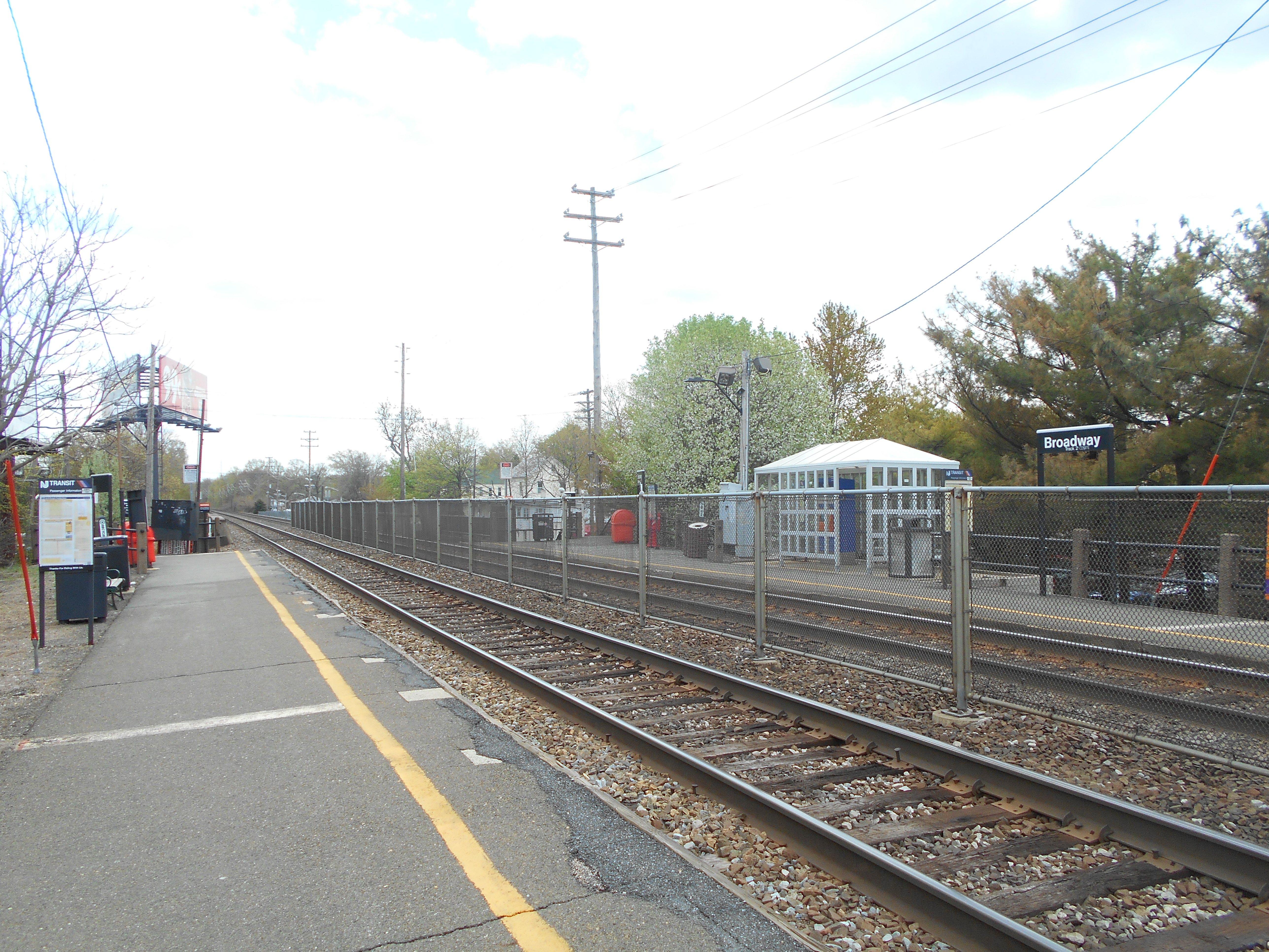 The Broadway New Jersey Transit station in Fair Lawn, New Jersey.